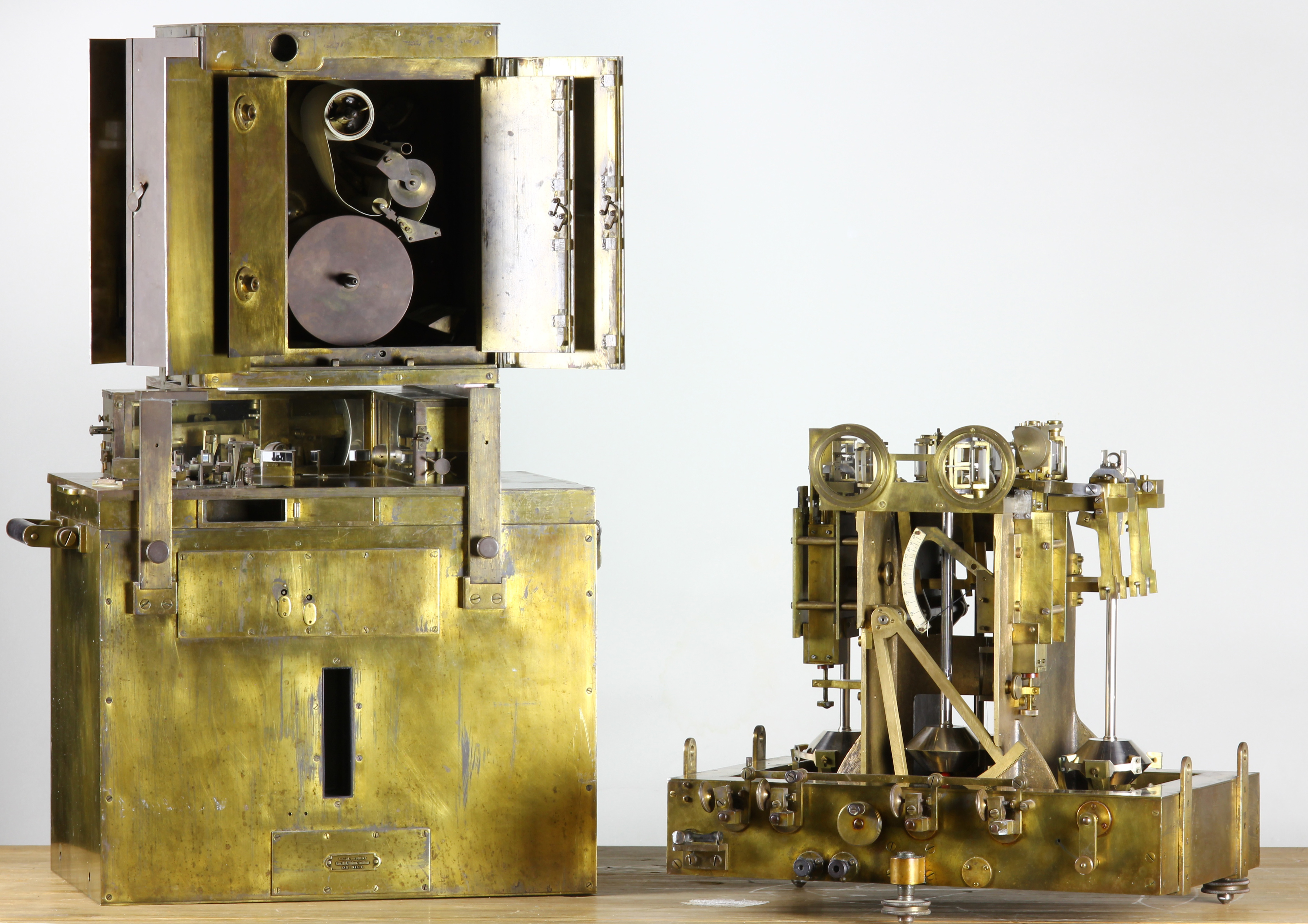 (Right) The Vening Meines pendulum Apparatus ("Golden Calf"). (Left) The safety case with on-top the recording module.